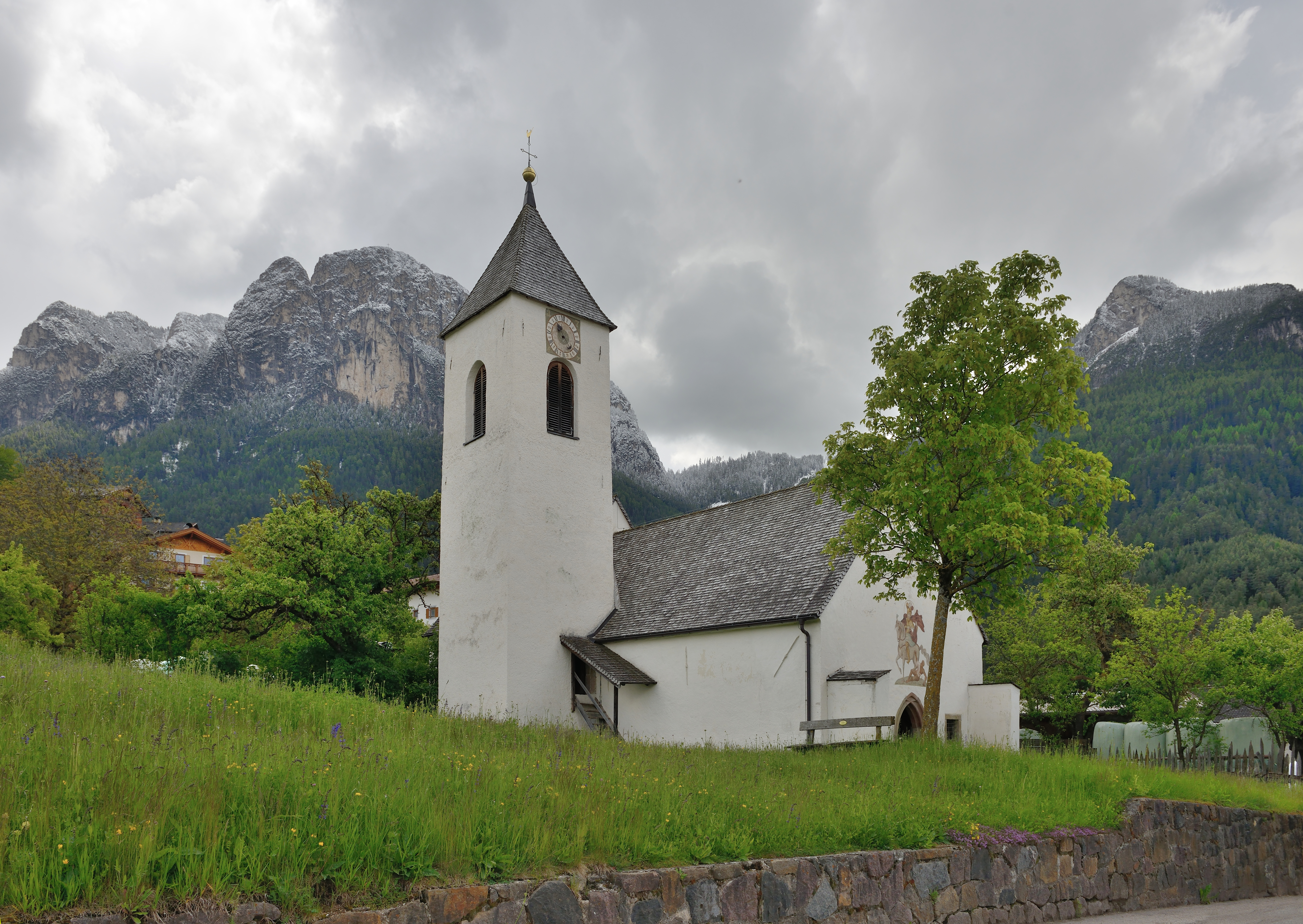 Saint Martin church in Völs am Schlern